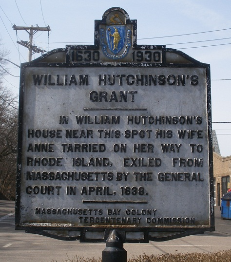 Historical highway marker for William and Anne Hutchinson property at Mount Wollaston, now Quincy, MA 31 March 2013